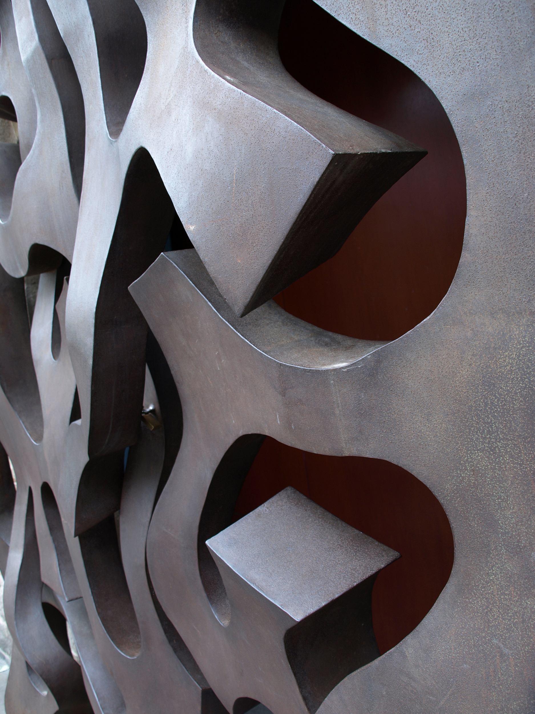 Diocesan Museum of Barcelona (Spain)